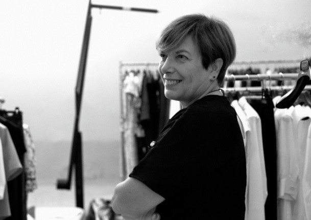 Rosanna Daolio